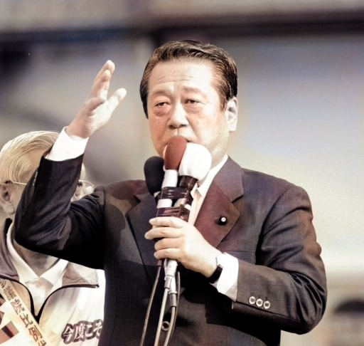 Ichirō Ozawa, President of the Liberal Party, made a campaign speech for Yoshitaka Kimoto, Candidate for Member of the House of Councillors, in Hokkaidō on July 18, 2001.